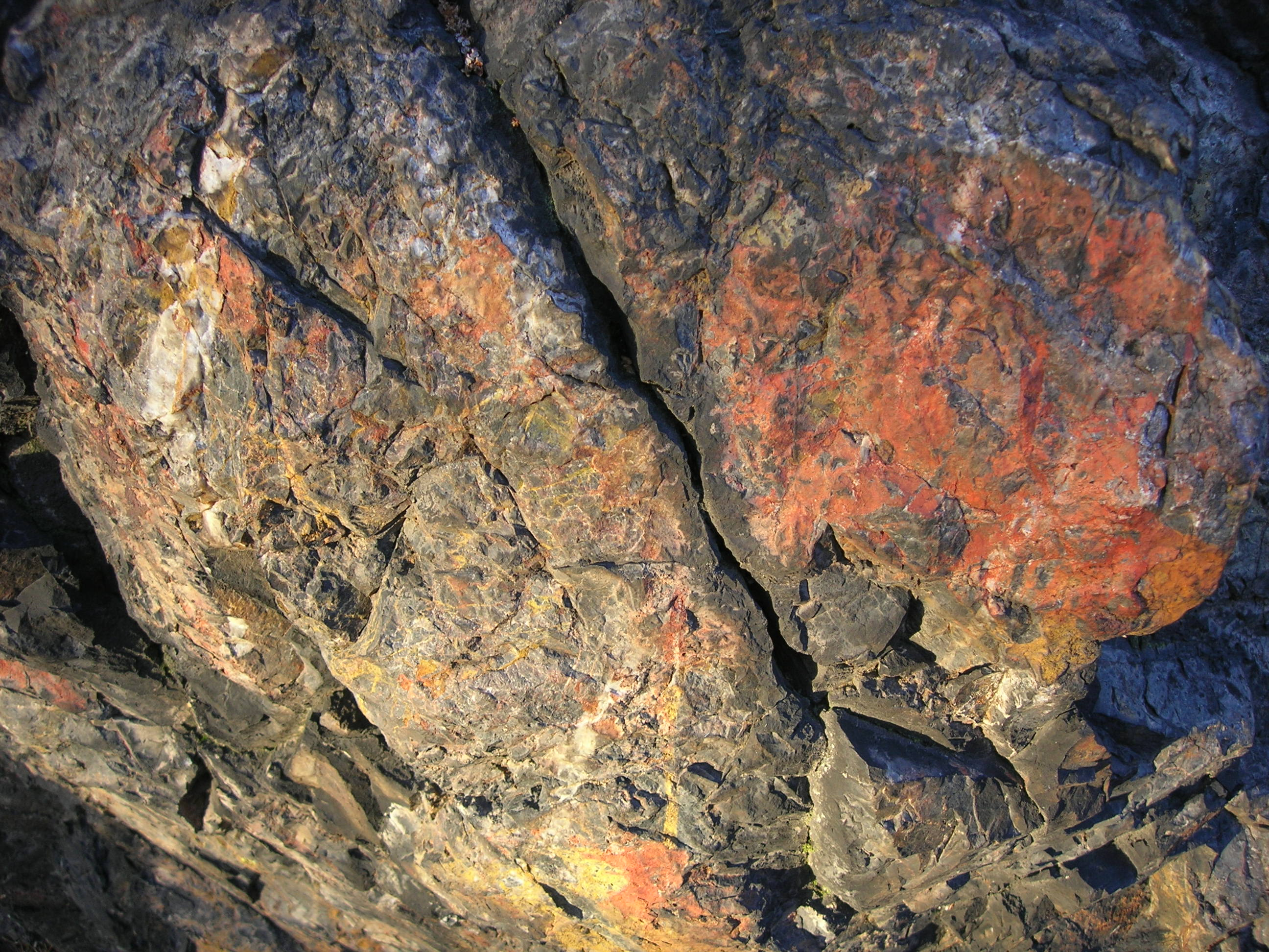 Nature reserve Údolí Únětického potoka near Suchdol, part of Prague, Czech Republic